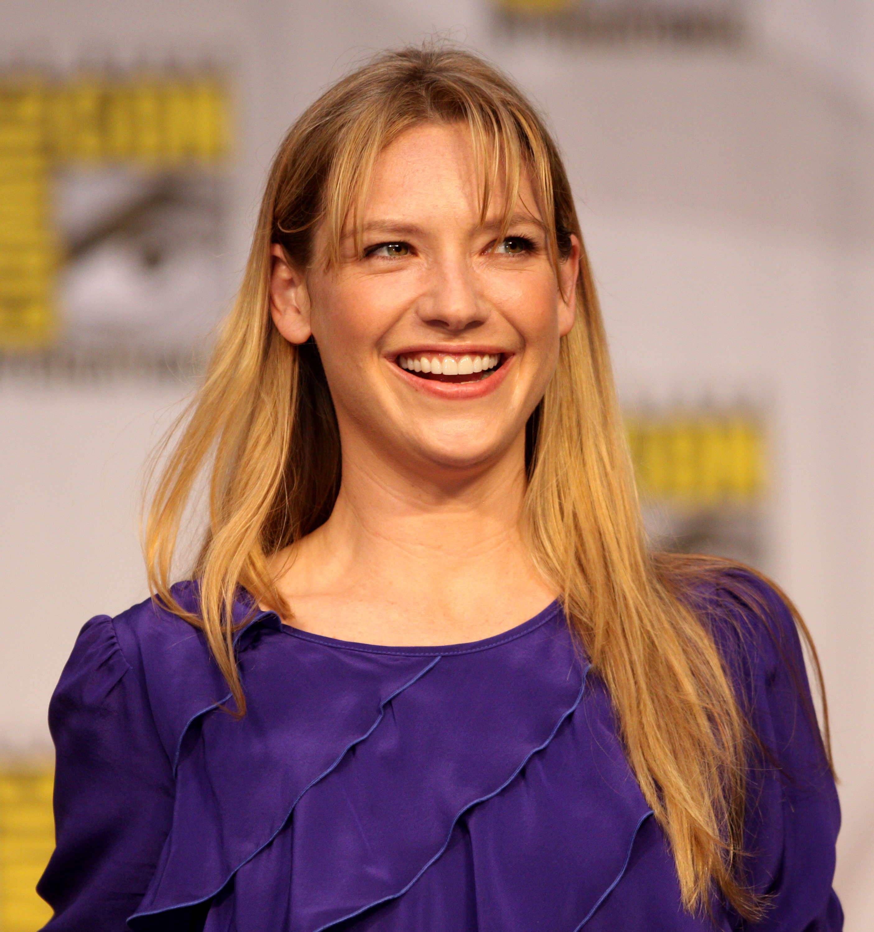 Actress Anna Torv on the Fringe panel at the 2010 San Diego Comic Con in San Diego, California.